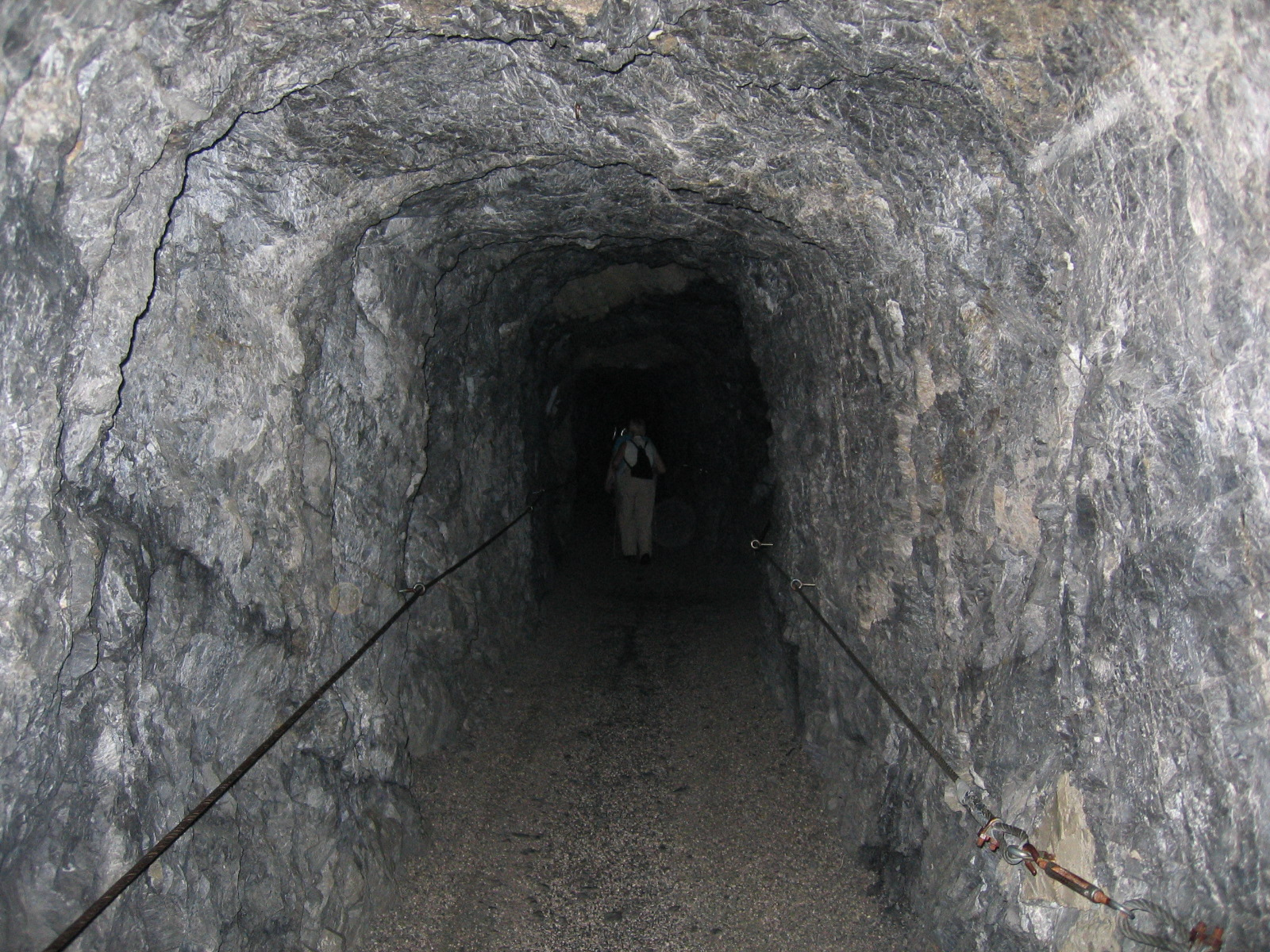 Narrow paths in the Partnachklamm